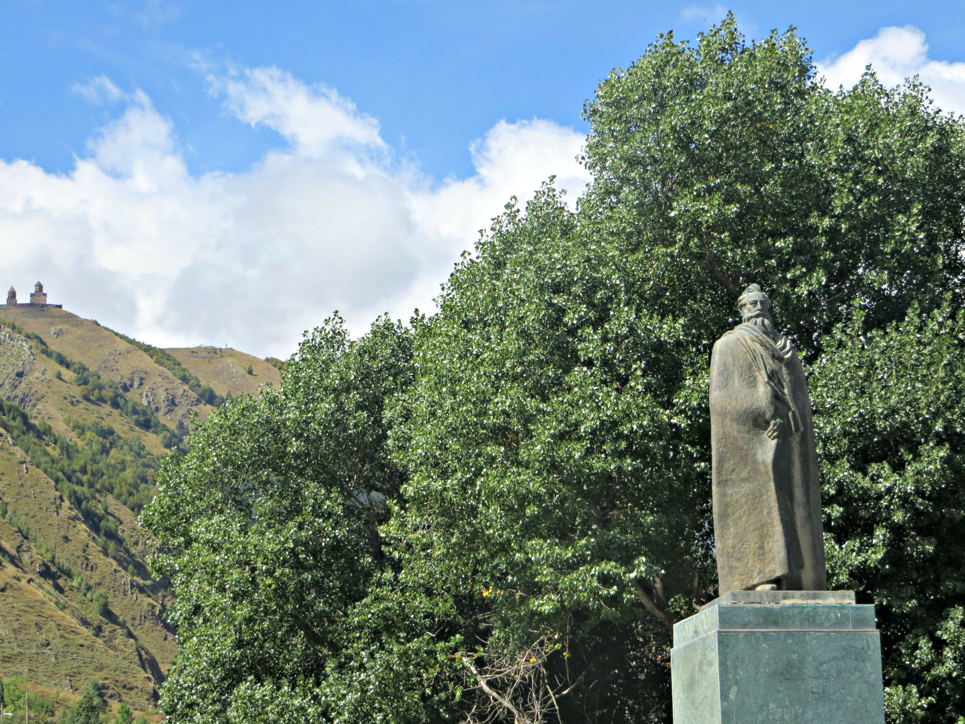 Stepantsminda is the official name for Kazbegi, a town situated in the foothills of the Caucasus Mountains, only 15 km from the border with the Russian Federation. The statue is of the town's most famous son, the writer Alexander Kazbegi (1848-93). On a hill overlooking the town is 14th century Tsminda Sameba (Holy Trinity Church).